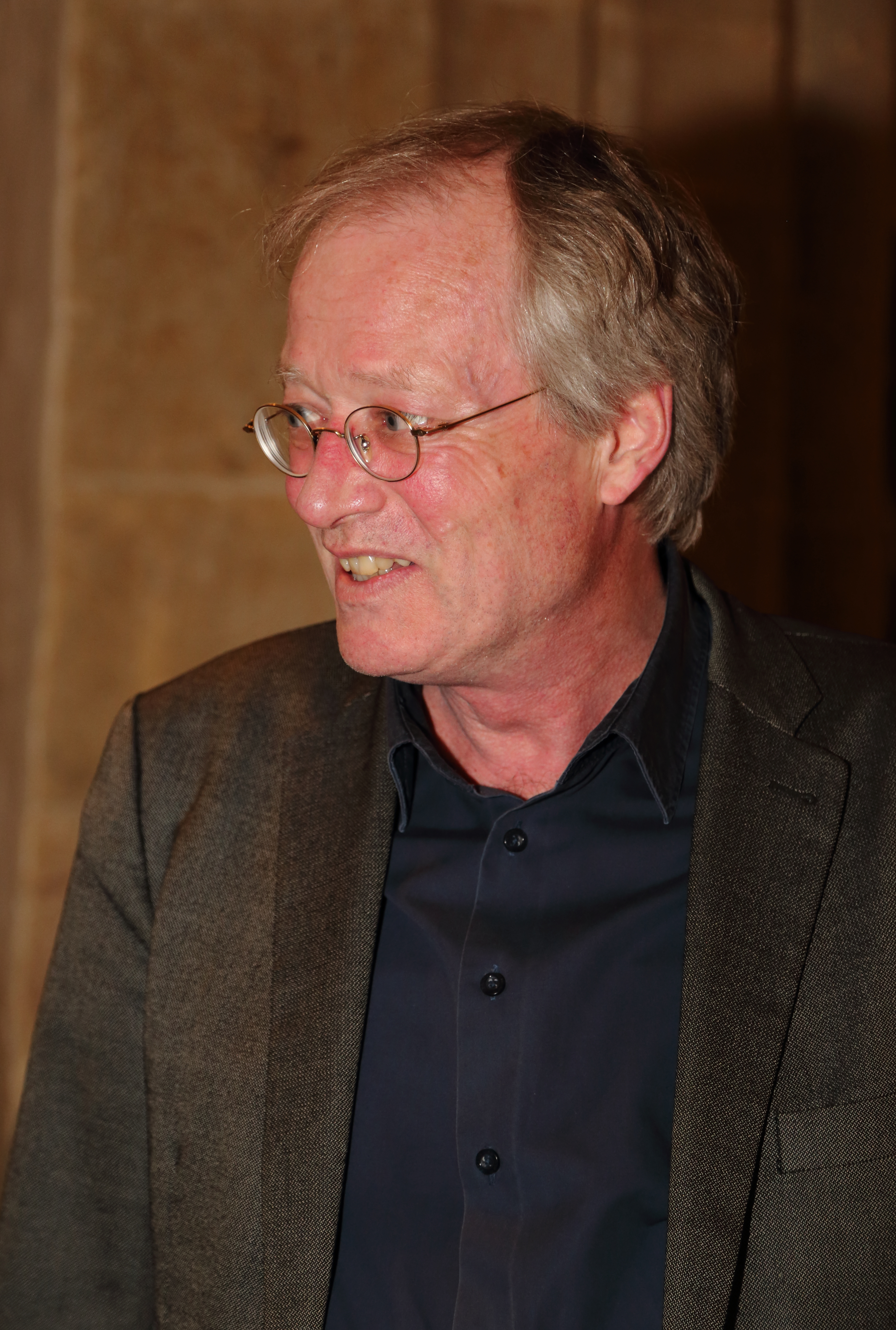 German writer Leo G. Linder at the Protestant City Church (Evangelische Stadtkirche) in Westerkappeln, Kreis Steinfurt, North Rhine-Westphalia, Germany.